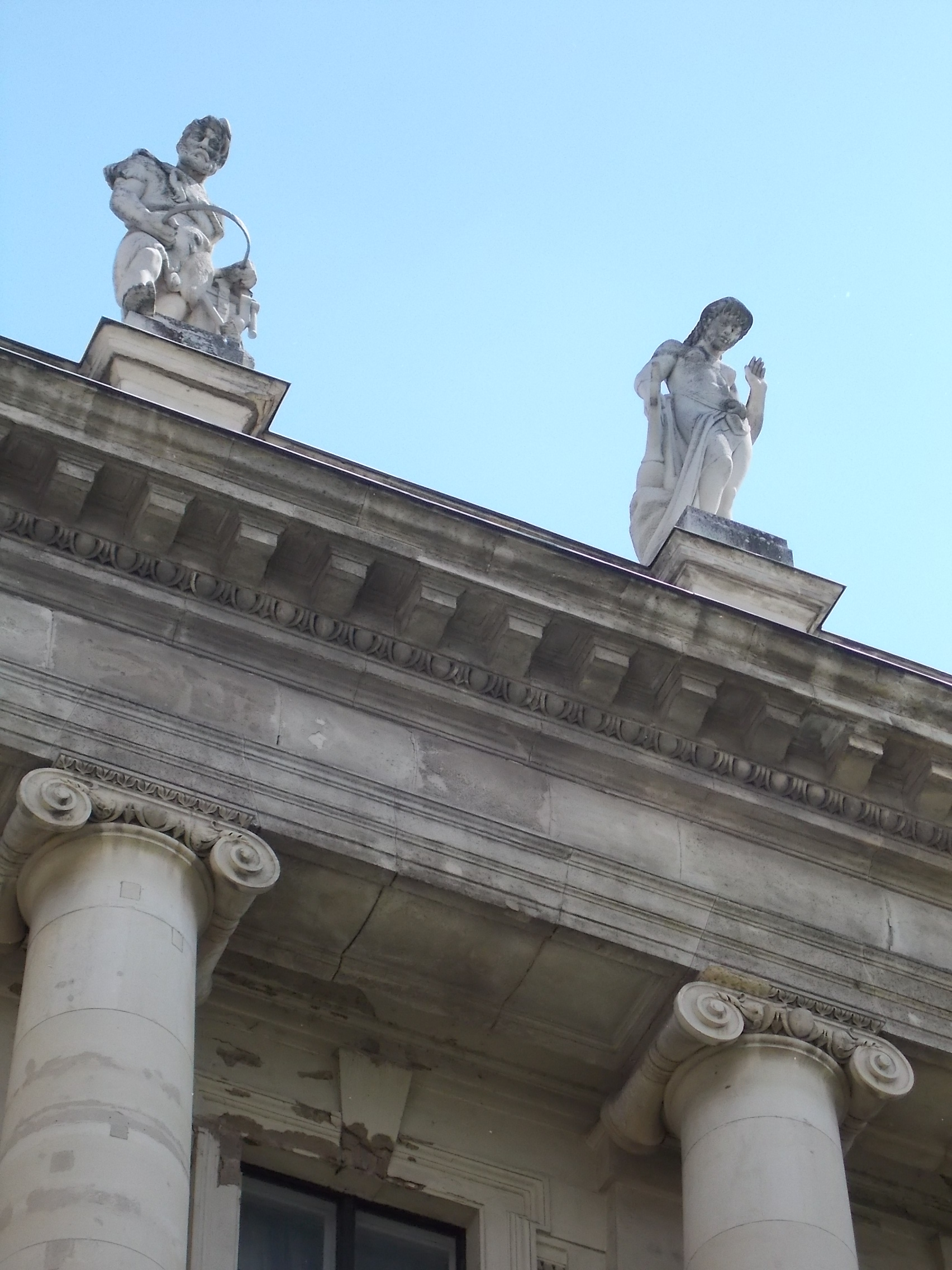 Ethnographic museum. Industry and Music. Allegorical and Architectural statues. - 12 Kossuth tér, Lipótváros neighbourhood, Belváros-Lipótváros district, Budapest.